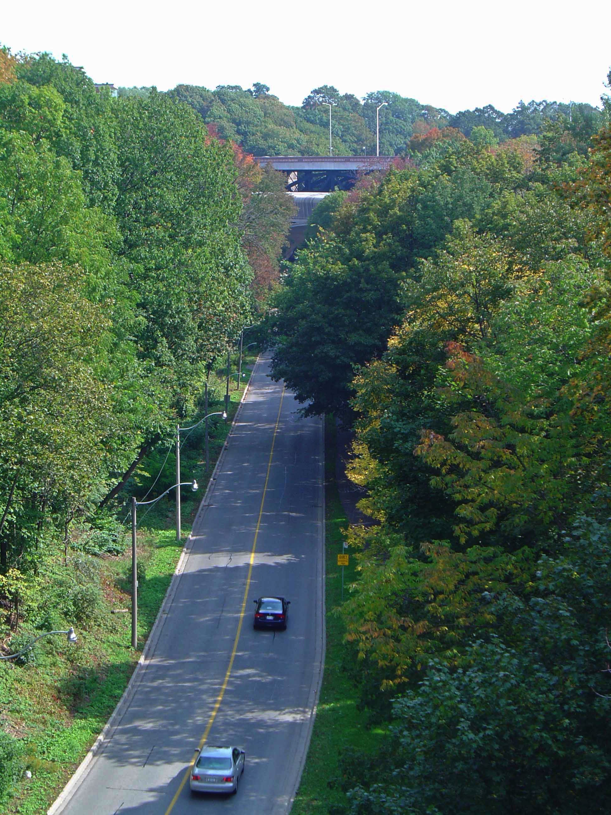 From taken by flickr user garyjwood